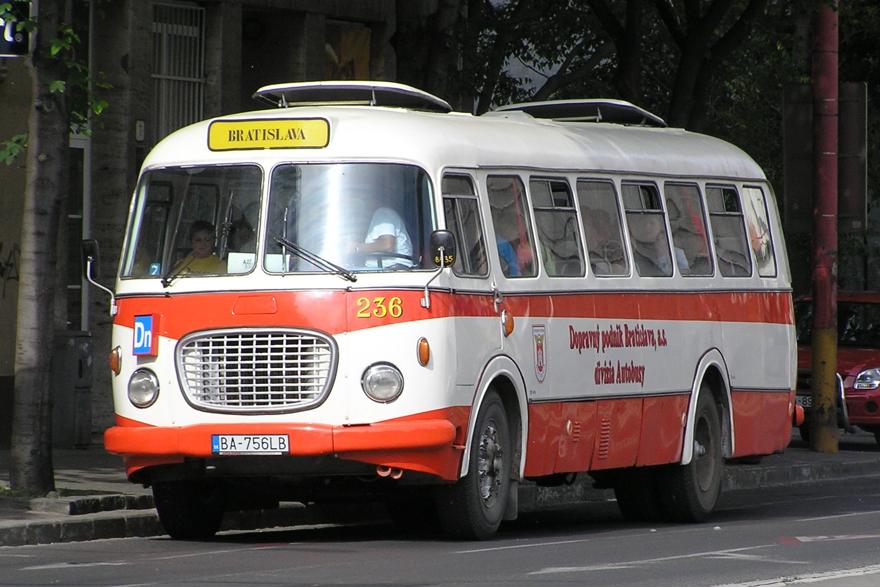 Bus Škoda 706 RTO MTZ ev. no. 236, Bratislava City Transport Company, year of production 1968